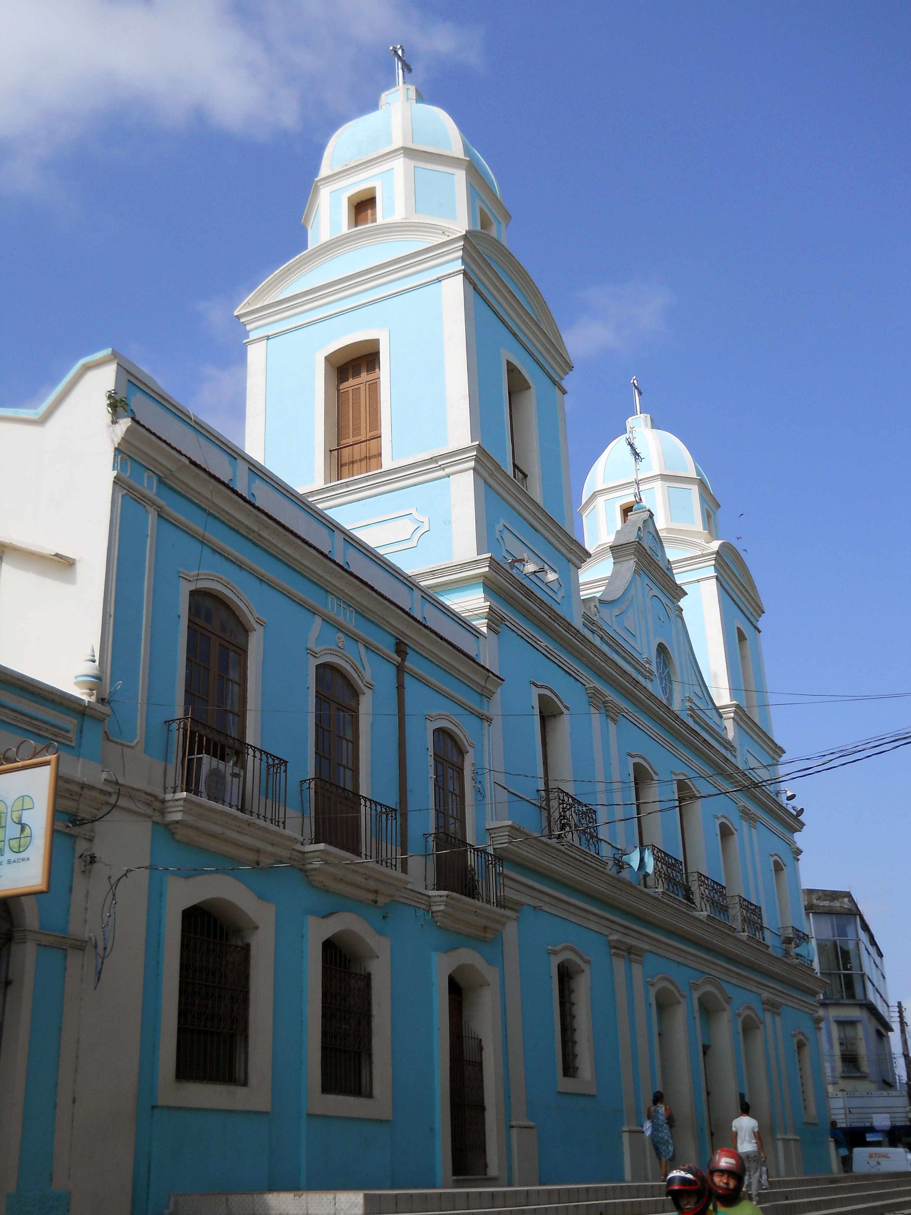 Cathedral of Santarem